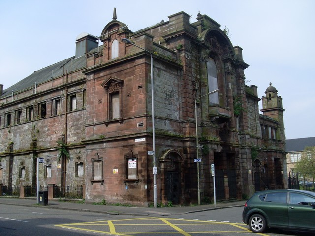 Springburn Public Halls Built as a gift to the residents, Springburn Public Halls were the centre of community life in the district before the arrival of the by-pass. This moved the primary shopping area to the location of the Springbrn Shopping Centre complex, and the building started its painful decline. One of the areas most beautiful building, carving on the south and east elevations show the importance of the railways to the town, but cutbacks by Glashow Corporation meant that the decline was sure and speedy. After closing, the Halls became a Sports Centre for a few years until the opening of a new Library and Leisure complex, and the building eventually closed due to safety issues.